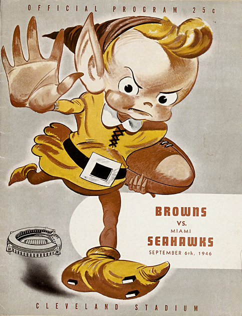 The official program for the Cleveland Browns' first game, played in September 1946 against the Miami Seahawks.